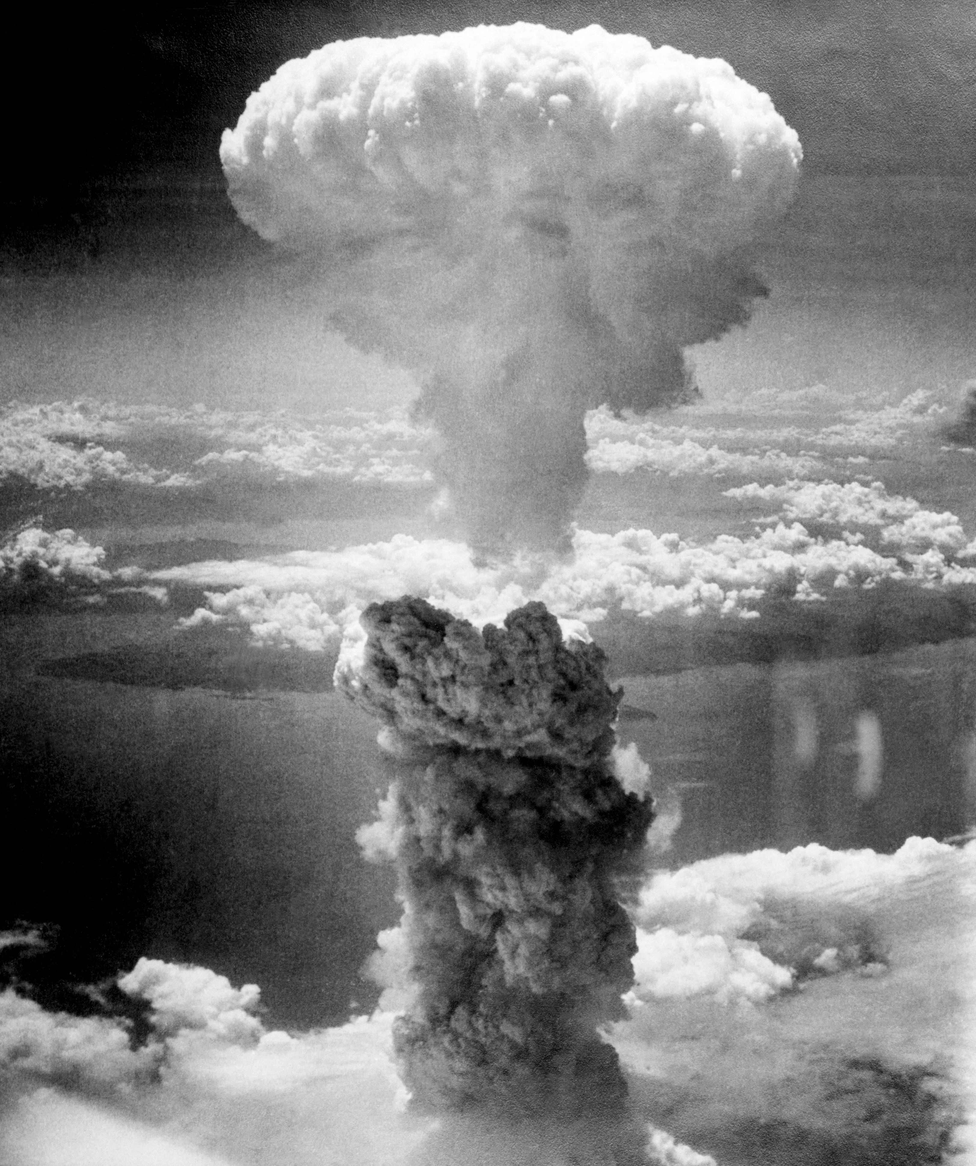 Atomic bombing of Nagasaki on August 9, 1945.